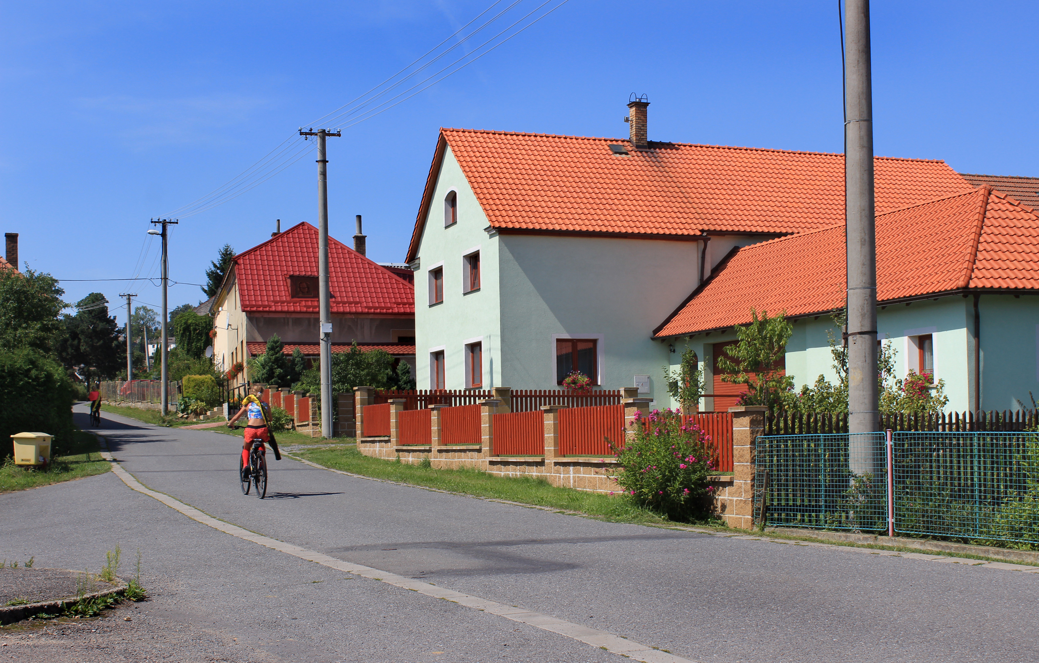 Side street in Javorník, Czech Republic.